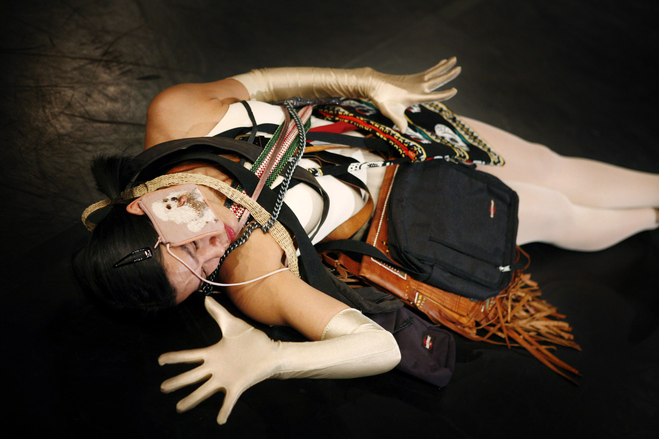 Solo Adaptations "Solo Adaptations (of Deborah Hay's Room)" Performer: Emmanuelle Huynh Dance Theater Workshop February 11, 2008 Photo Credit: Julieta Cervantes Photographer: Julieta Cervantes ALL RIGHTS RESERVED